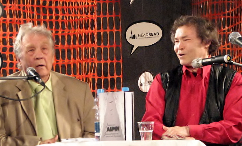 Arvo Valton and Jeremei Aipin performing during literature festival HeadRead 2011